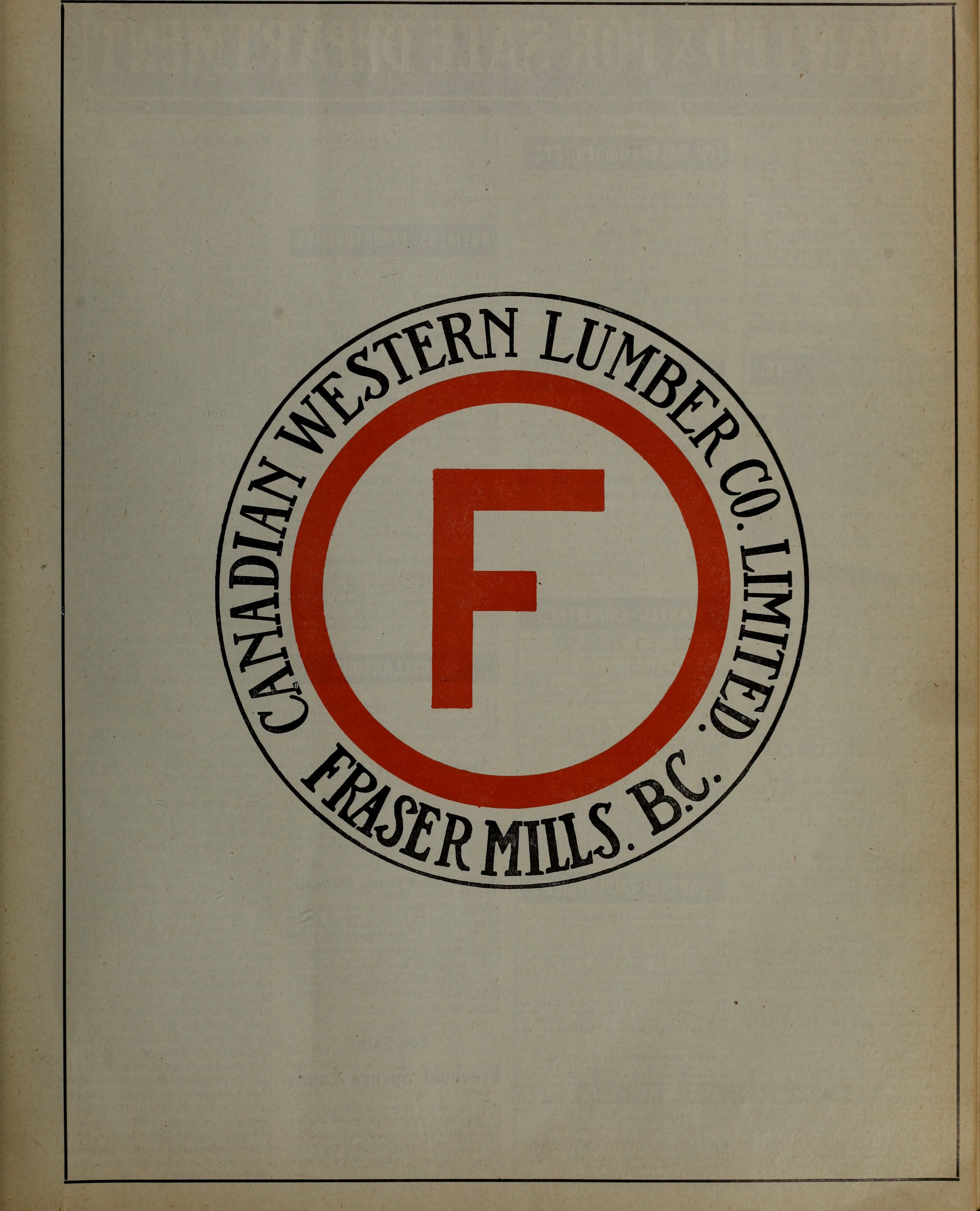 Title: Canadian forest industries 1911 Year: 1911 (1910s) Authors: Subjects: Lumbering; Forests and forestry; Forest products; Wood-pulp industry; Wood-using industries Publisher: Don Mills, Ont. : Southam Business Publications Text Appearing Before Image: CANADA LUMBERMAN AND WOODWORKER 4i Text Appearing After Image: '